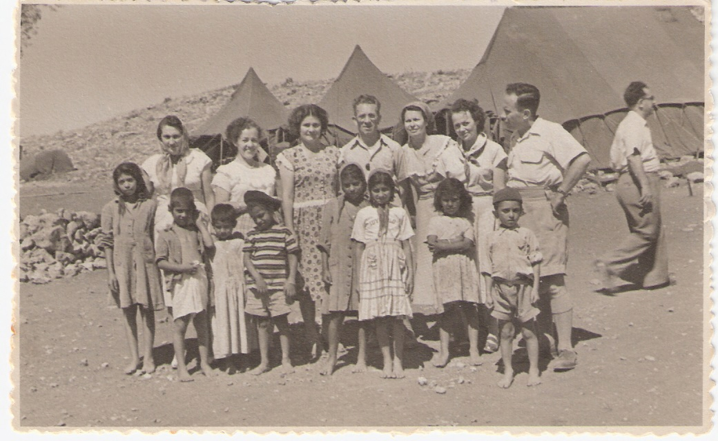 visit in immigrant transit camp kisalon in juda\'s mountains